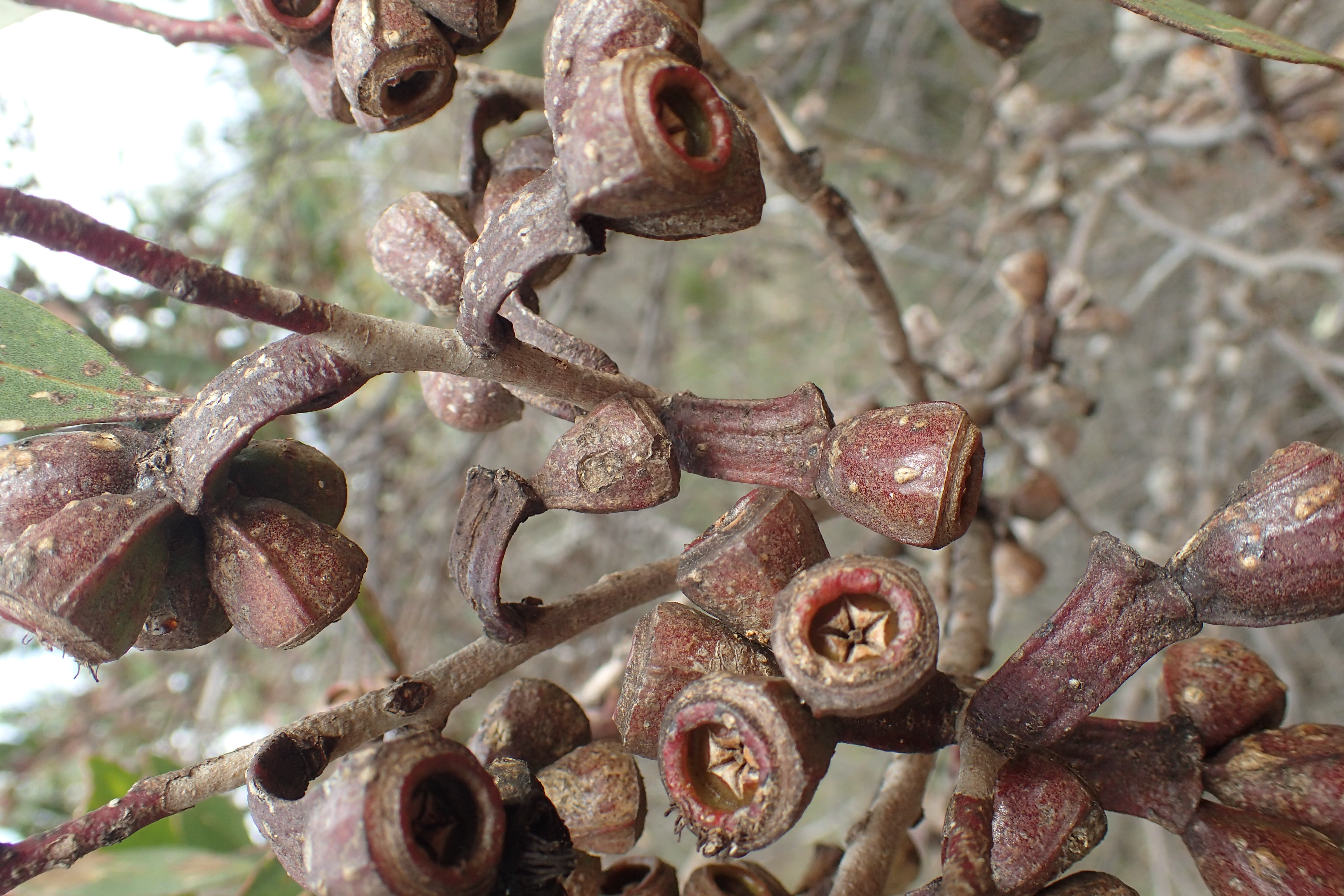 Fruit of Eucalyptus stoatei in Helms Arboretum near Esperance, W.a.